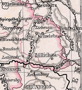 Detail from a map of Brandenburg.